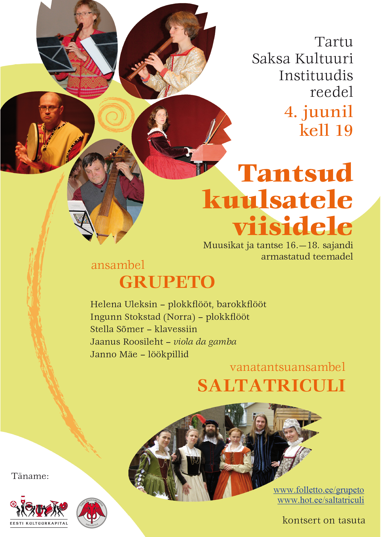 Grupeto concert poster 2010